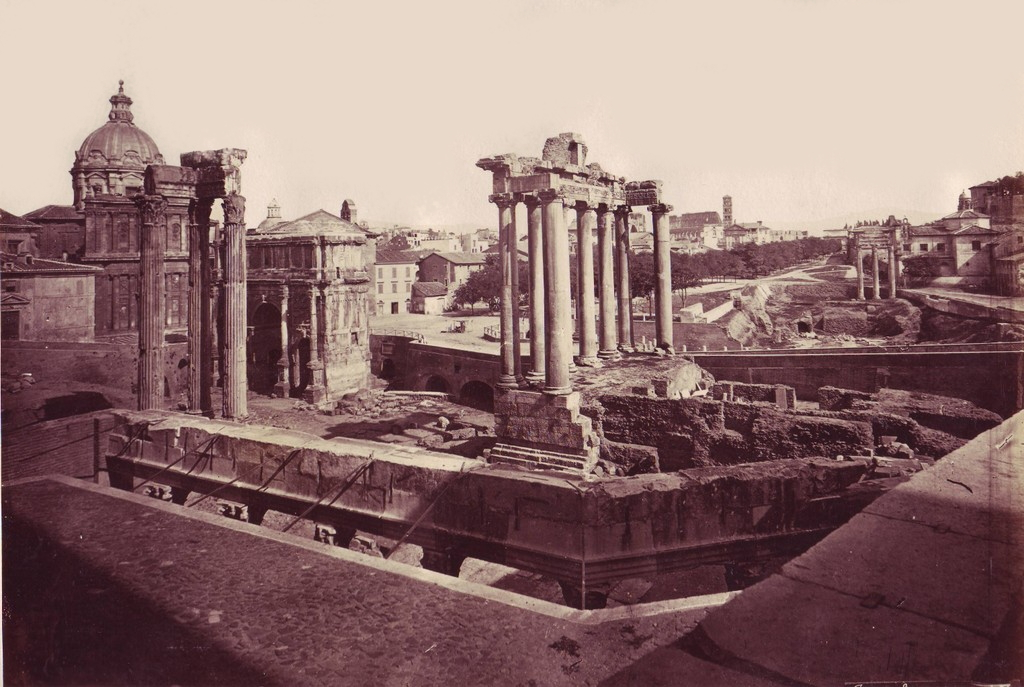 Michele Mang (documented between 1860 and 1887 ca.) - Forum of Rome.